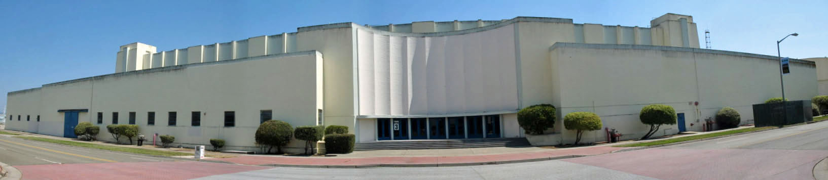 Registered Historic Places in San Francisco, California. Palace of Fine and Decorative Arts, SE Side of California Ave. between Avenue F and Avenue I, Treasure Island, San Francisco, California, USA. Photographed 2008-06-21 from the intersection of California Ave. and Avenue H.